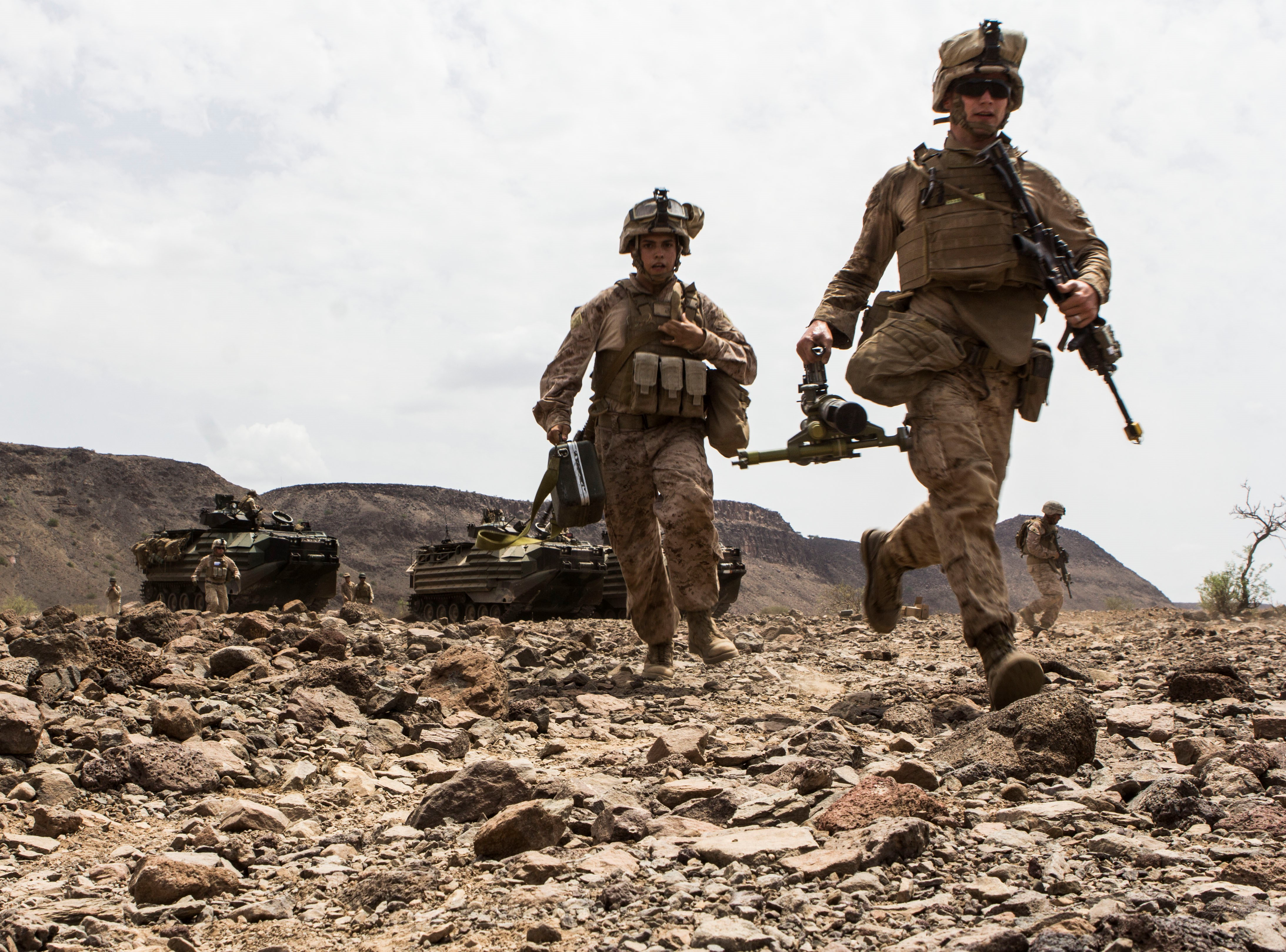 U.S. Marines of Company K, Battalion Landing Team 3/2, 26th Marine Expeditionary Unit (MEU), sprint to the gun line with their 60mm mortars during their sustainment training in the U.S. 6th Fleet area of responsibility, Aug. 7, 2013. The 26th MEU is a Marine Air-Ground Task Force forward-deployed to the U.S. 6th Fleet area of responsibility aboard the Kearsarge Amphibious Ready Group serving as a sea-based, expeditionary crisis response force capable of conducting amphibious operations across the full range of military operations.